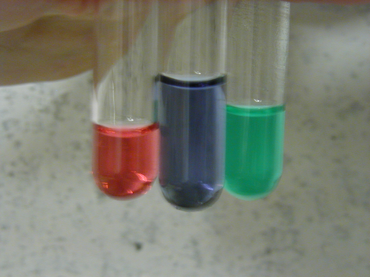 Cobalt chloride in various stages of equilibrium with hydrochloric acid